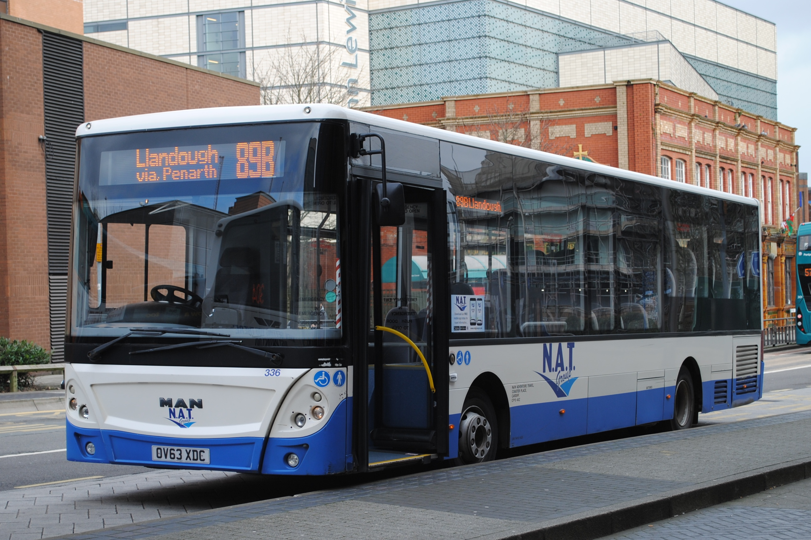 OV63 XDC M.A.N. 14.250 Caetano seen in Custom House Street, Cardiff.